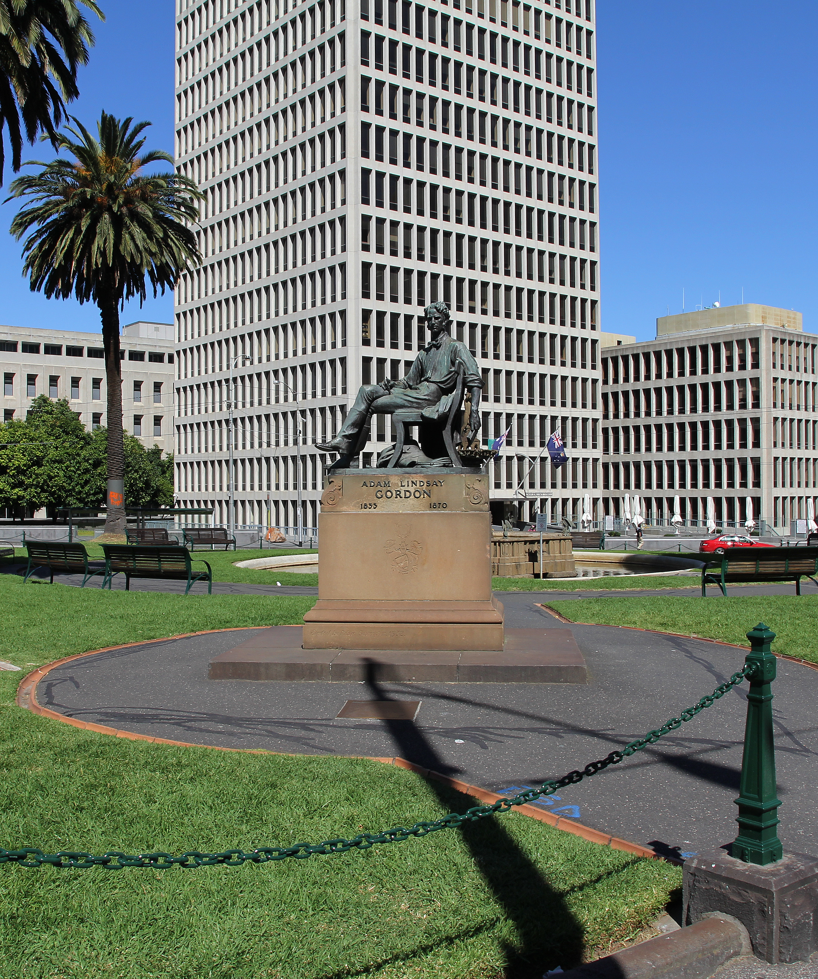 Melbourne Spring Street - Adam Lindsay Gordon Statue (1833-1870)